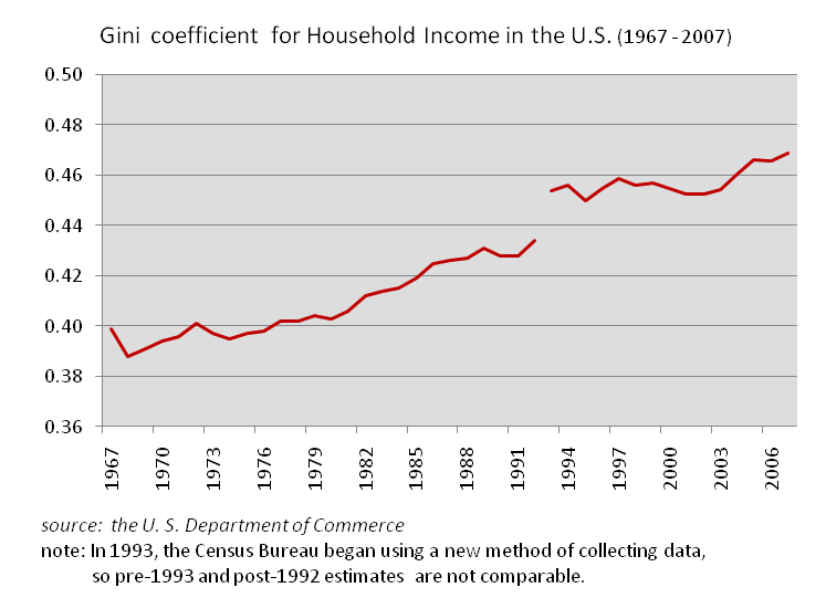 Gini Coefficient for household income in the US (1967-2007) note:In 1993, the Census Bureau began using a new method of collecting data, so pre-1993 and post-1992 estimates are not comparable.